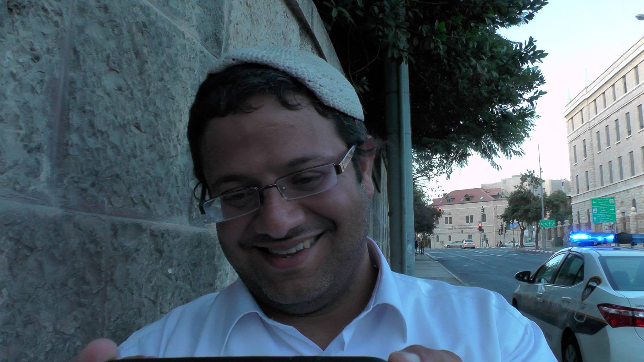 Itamar Ben Gvir, July 2014